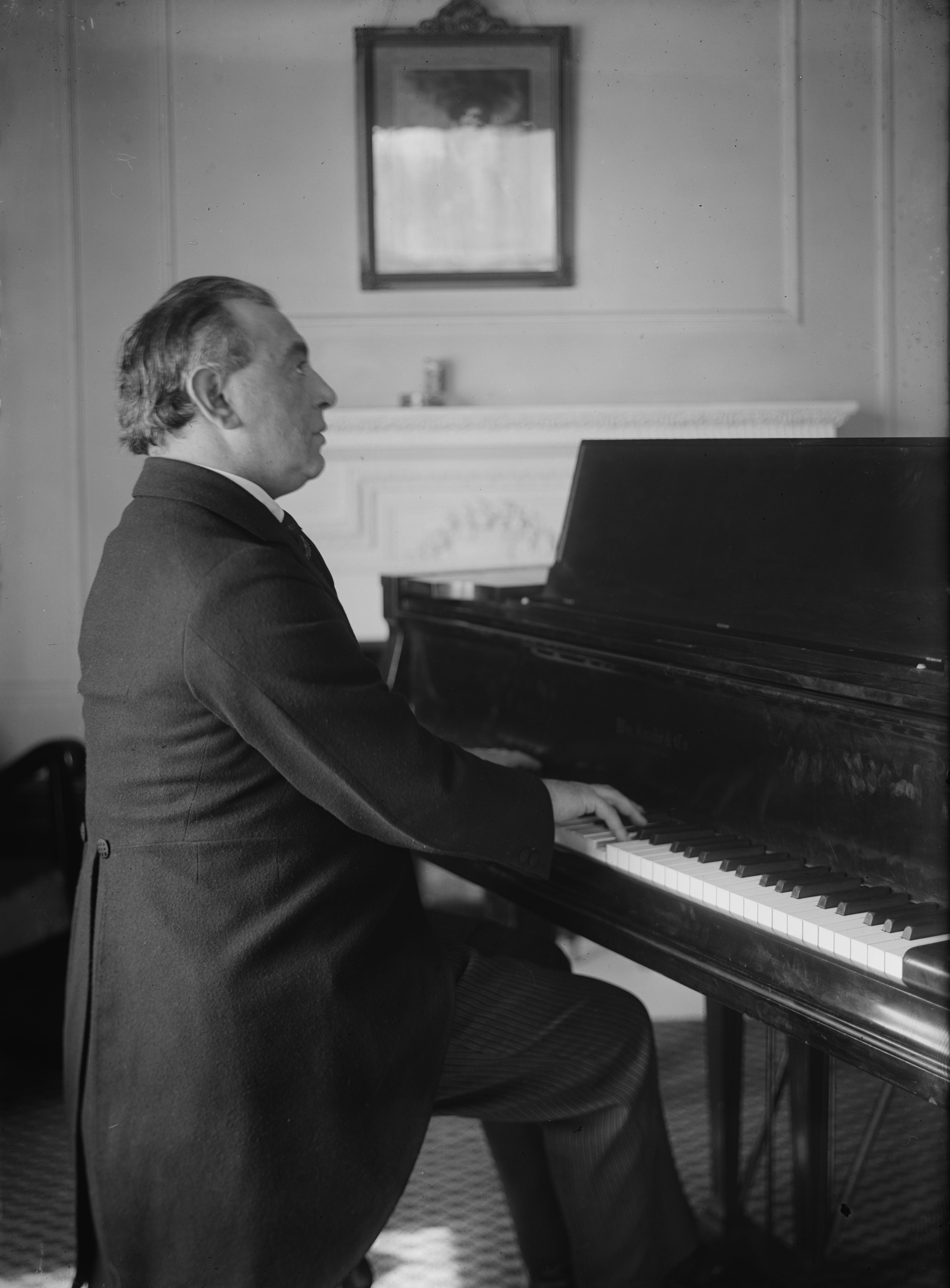 Ignaz Friedman (1882–1948), Polish pianist and composer.